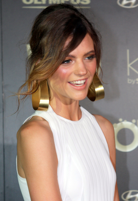 Montana Cox at the Who Sexiest People Party 2011.